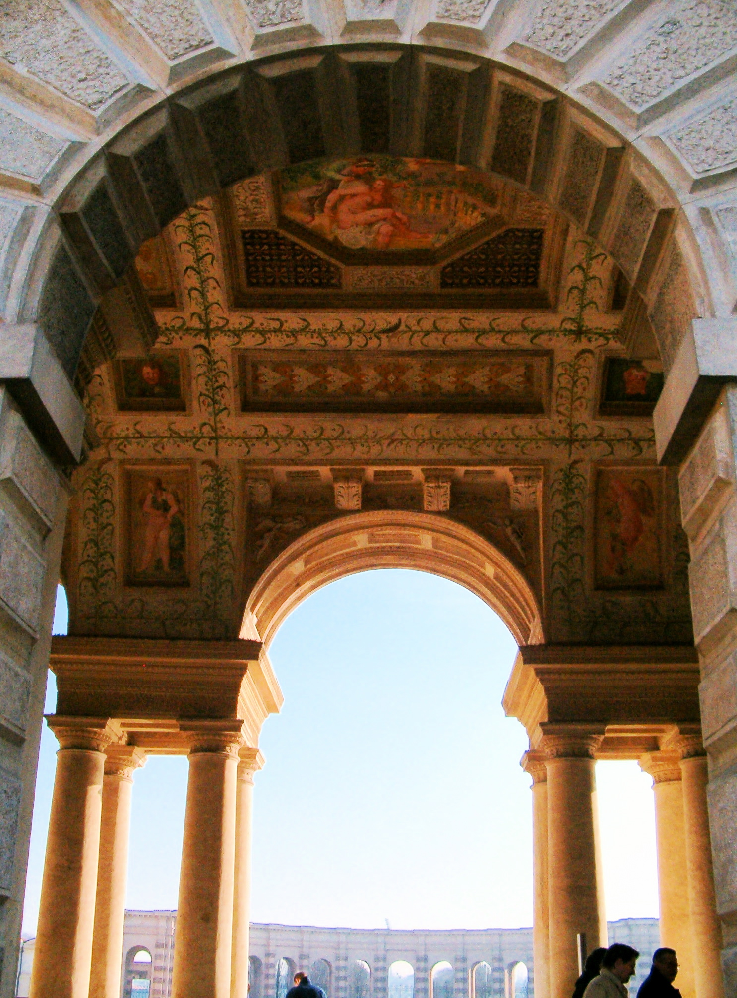 Palazzo Te in Mantua, by Giulio Romano.